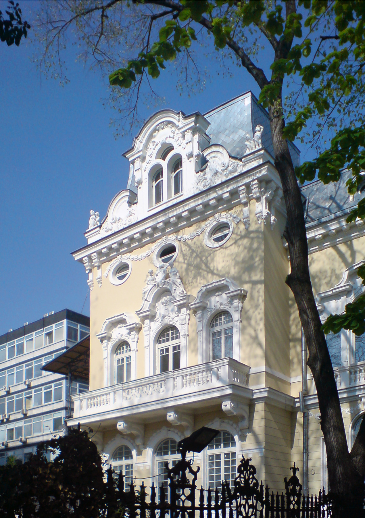 Yablanski`s house in Sofia with undergoing renovation.